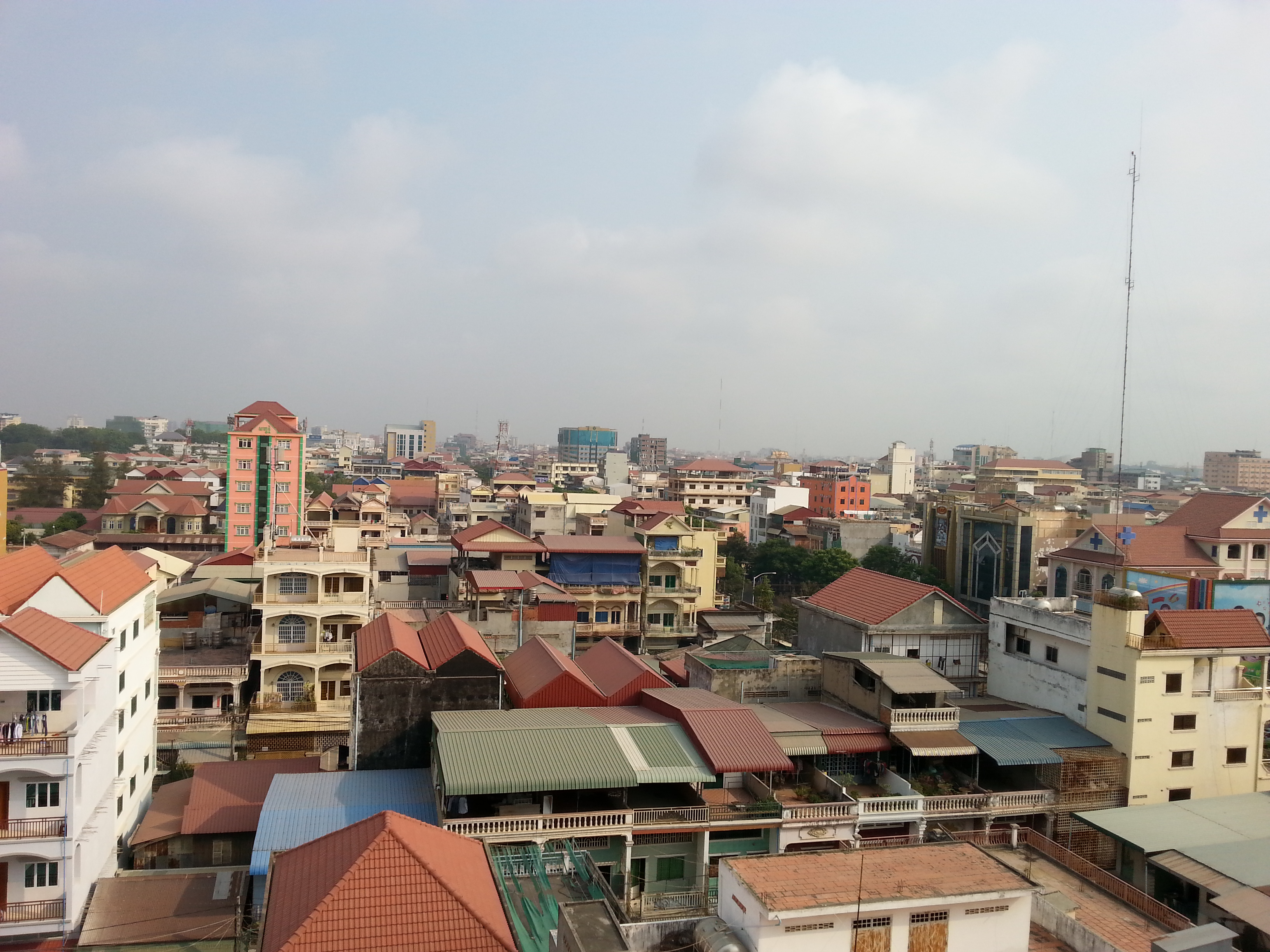 View of small houses in Phnom Penh.